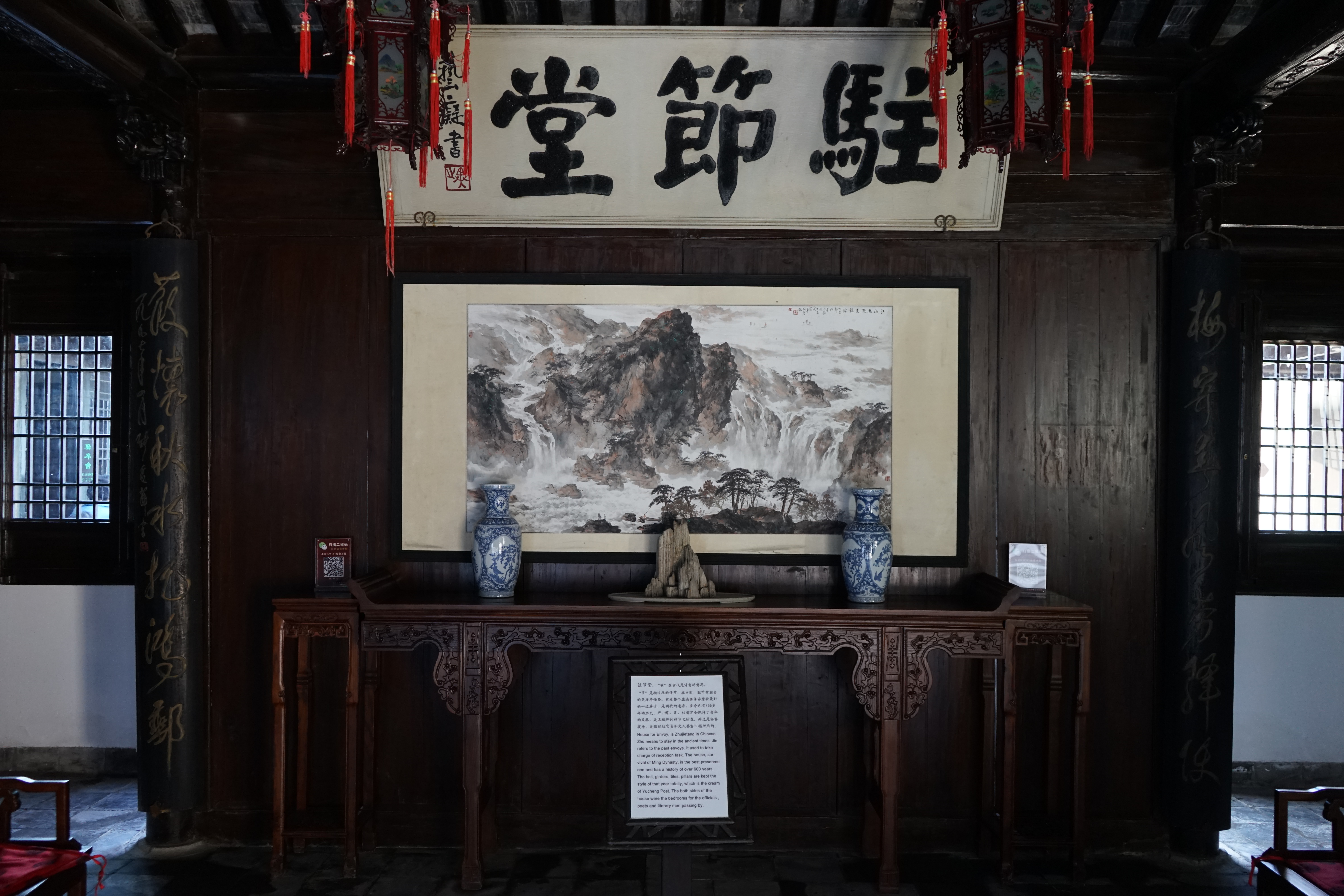 interior of the main hall of ZhuJie House, Yucheng Postal Stop. It's used for recepting the envoys.